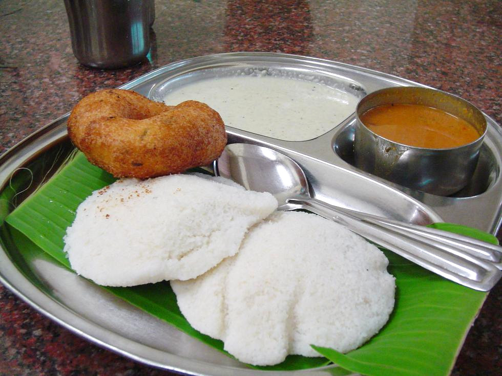 The food of India